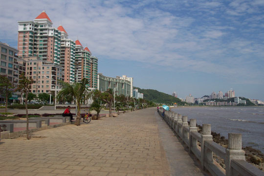 South of Zhuhai seafront on Qinglü Road, China